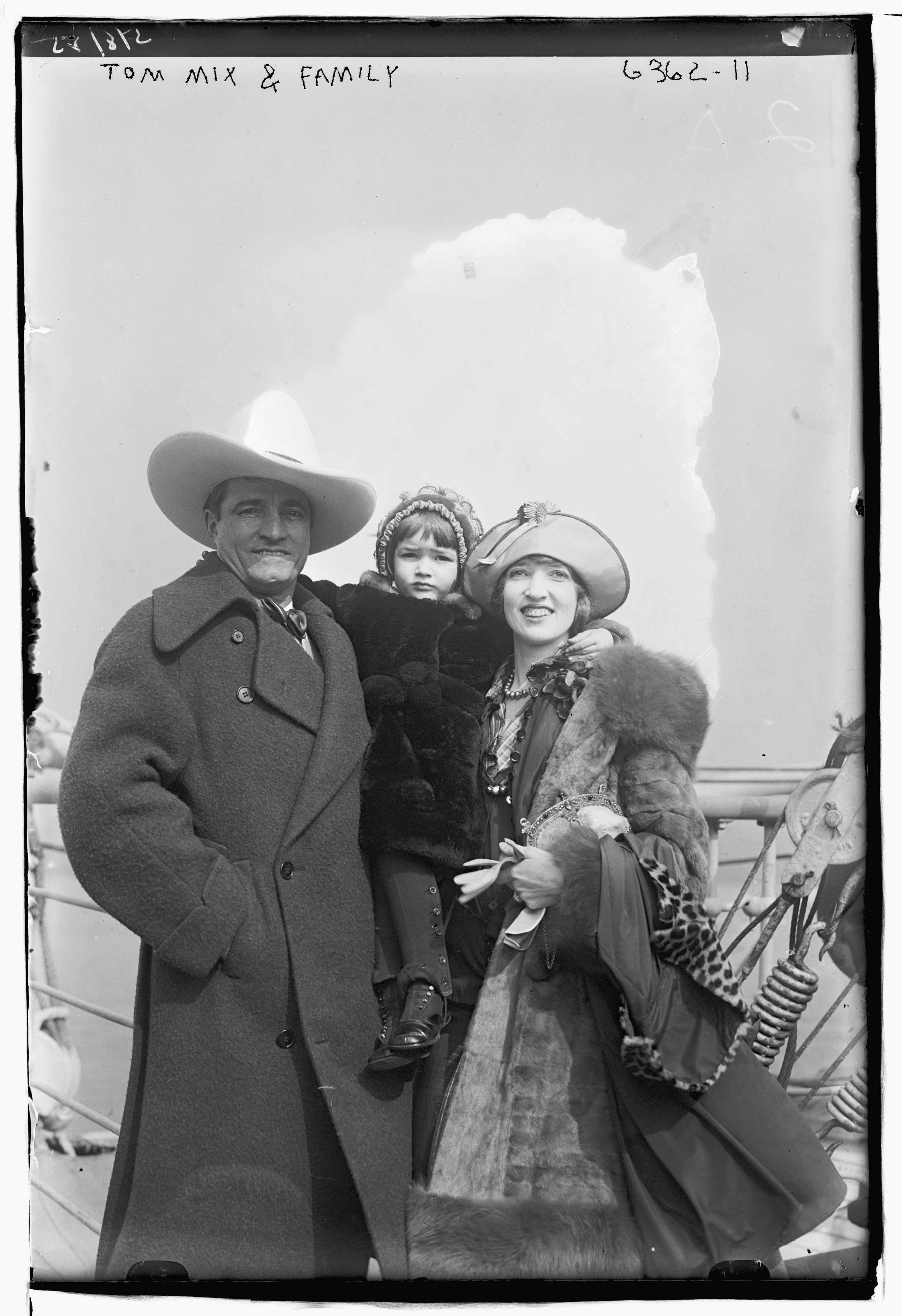 Title: Tom Mix and family Abstract/medium: 1 negative : glass ; 5 x 7 in. or smaller.